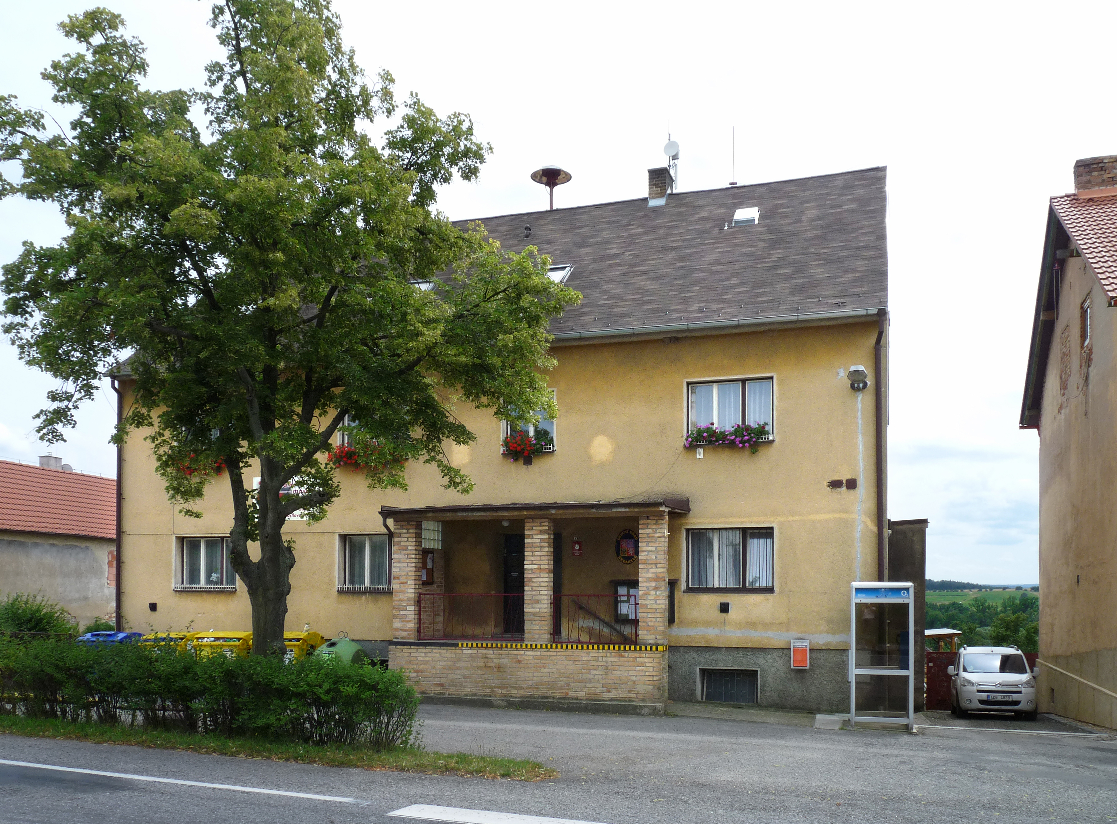 Municipal office building in the village of Nedabyle, České Budějovice District, Czech Republic.